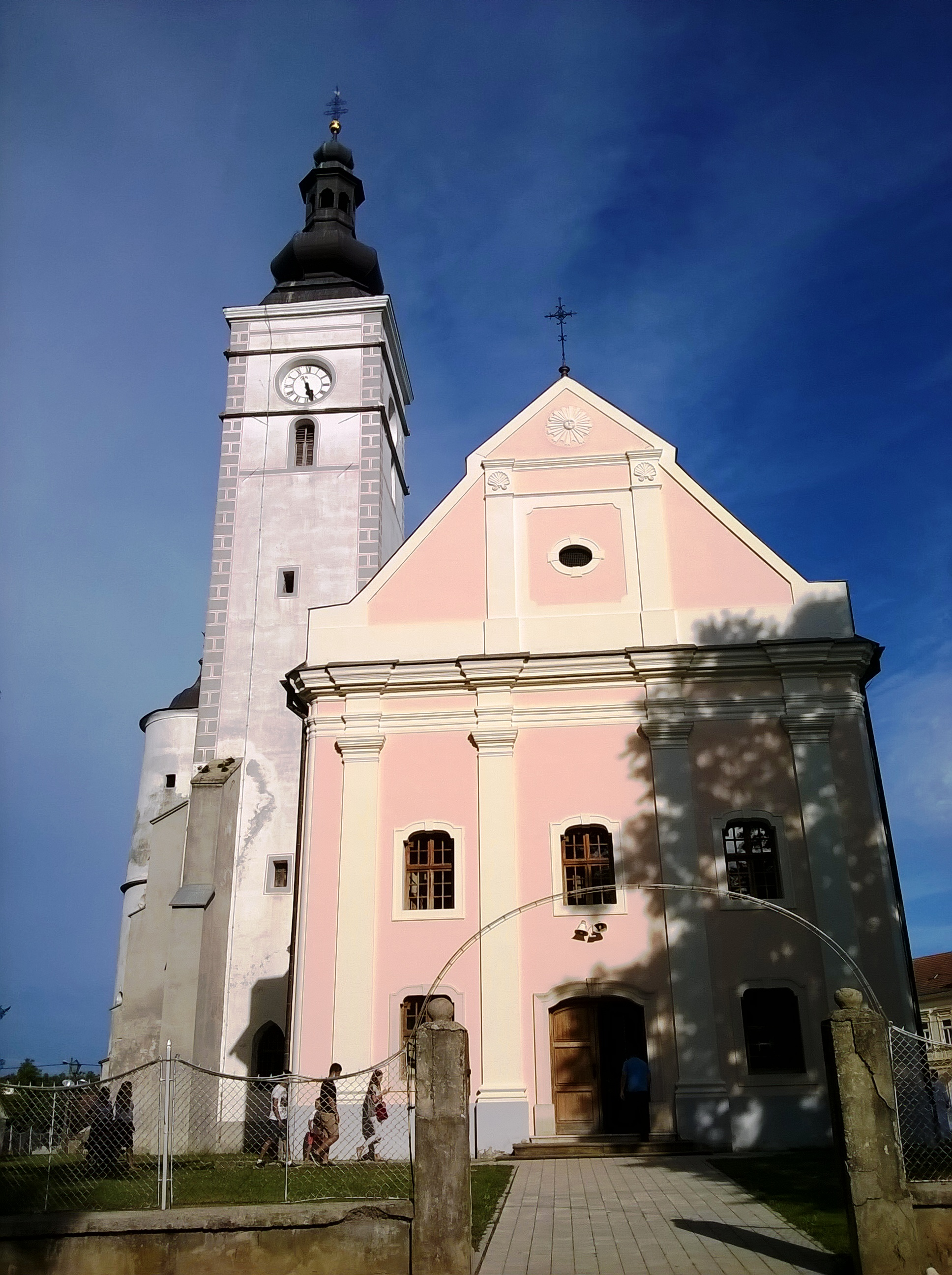 Church of the Assumption of Mary in Nova Raca, Croatia This is a a photo of a cultural heritage in Croatia with ID:Z-2446